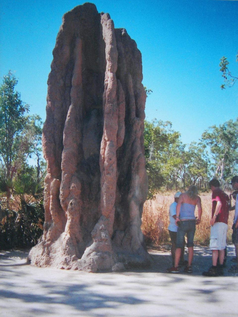 A tall termite mound in the Northern Territory